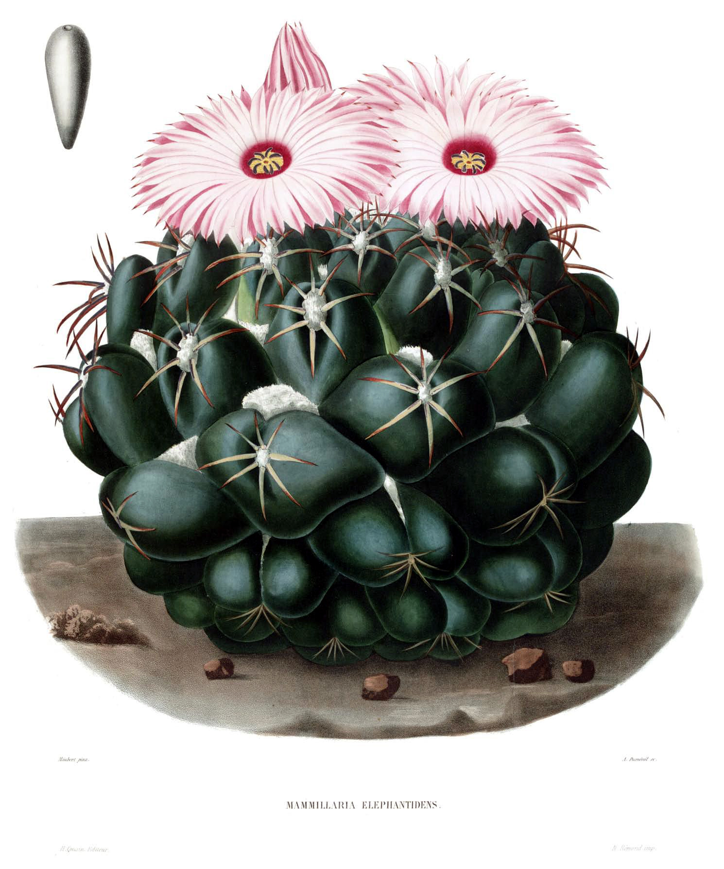 Plate from book